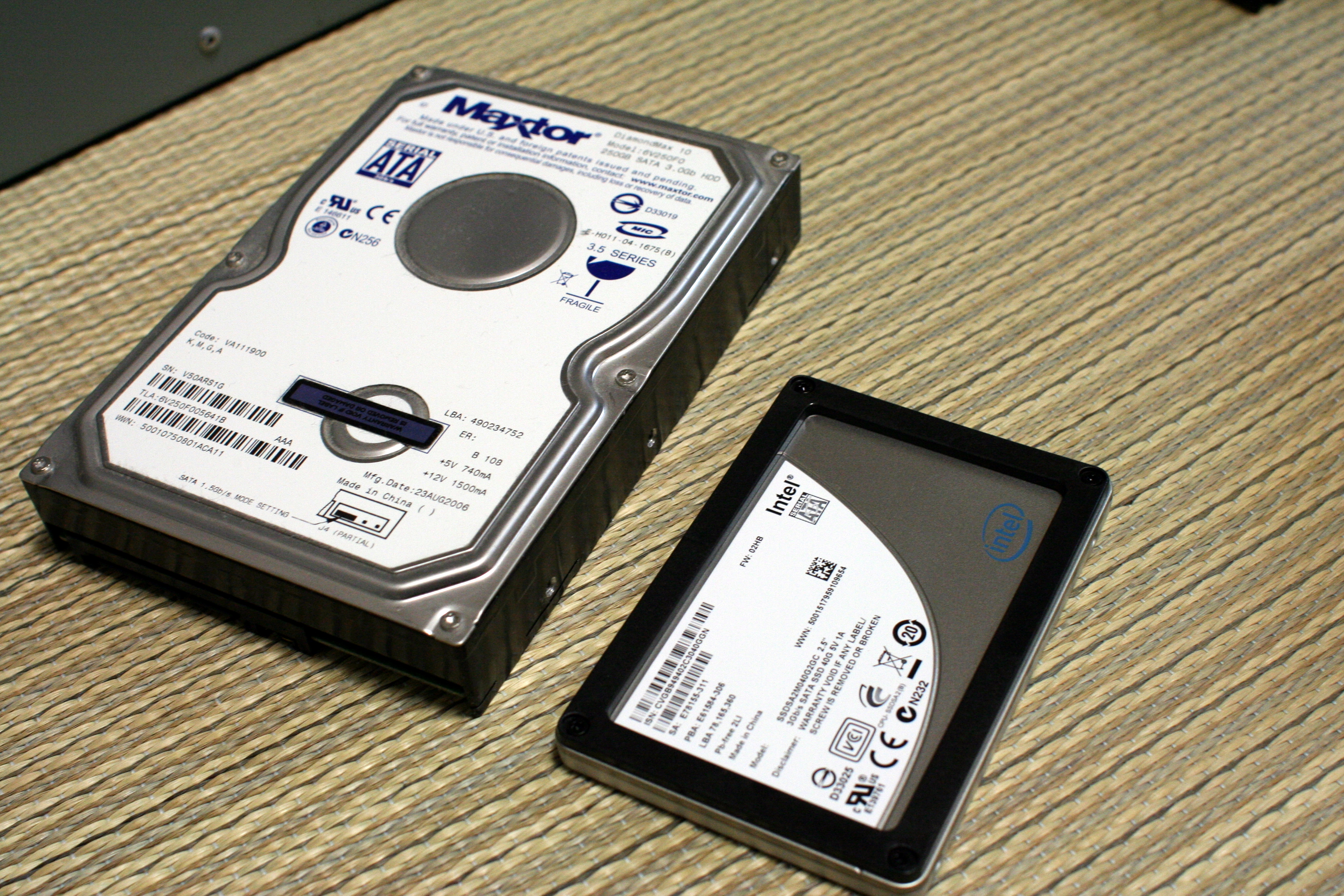 Maxtor 3.5" HDD and Intel 2.5" SSD.